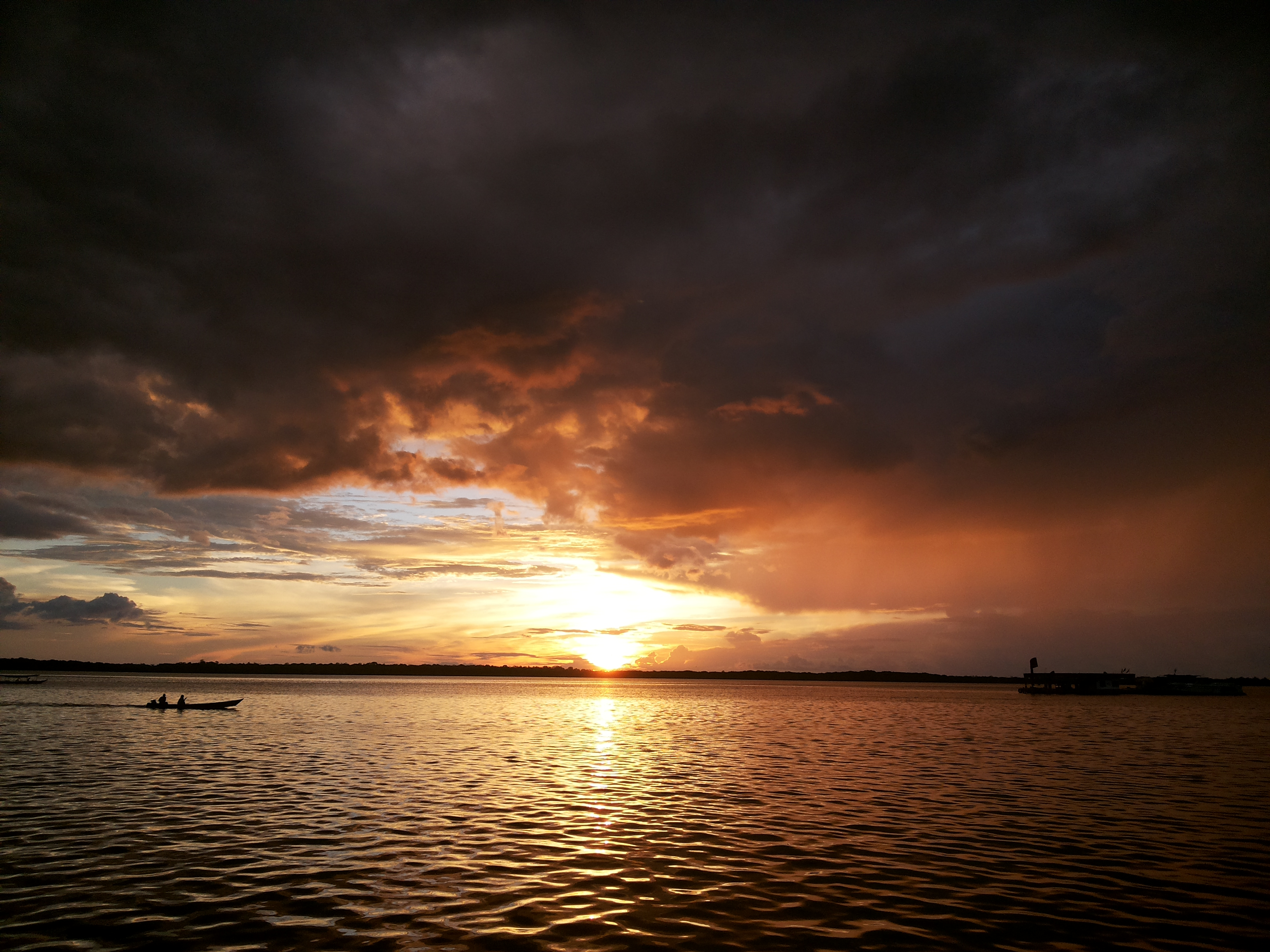 This is an amazing sunset sailing across the Amazonas River.